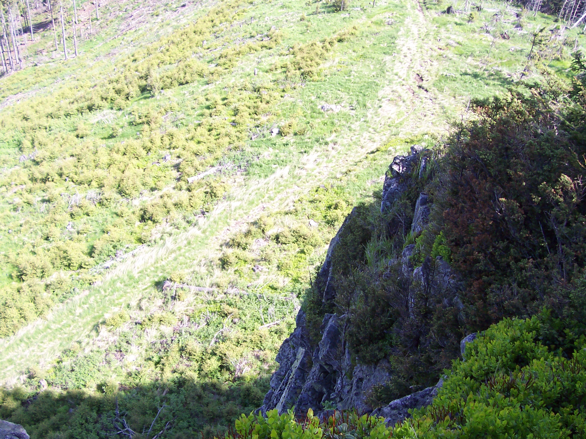 Hills around Remetea, Hargita County, Romania